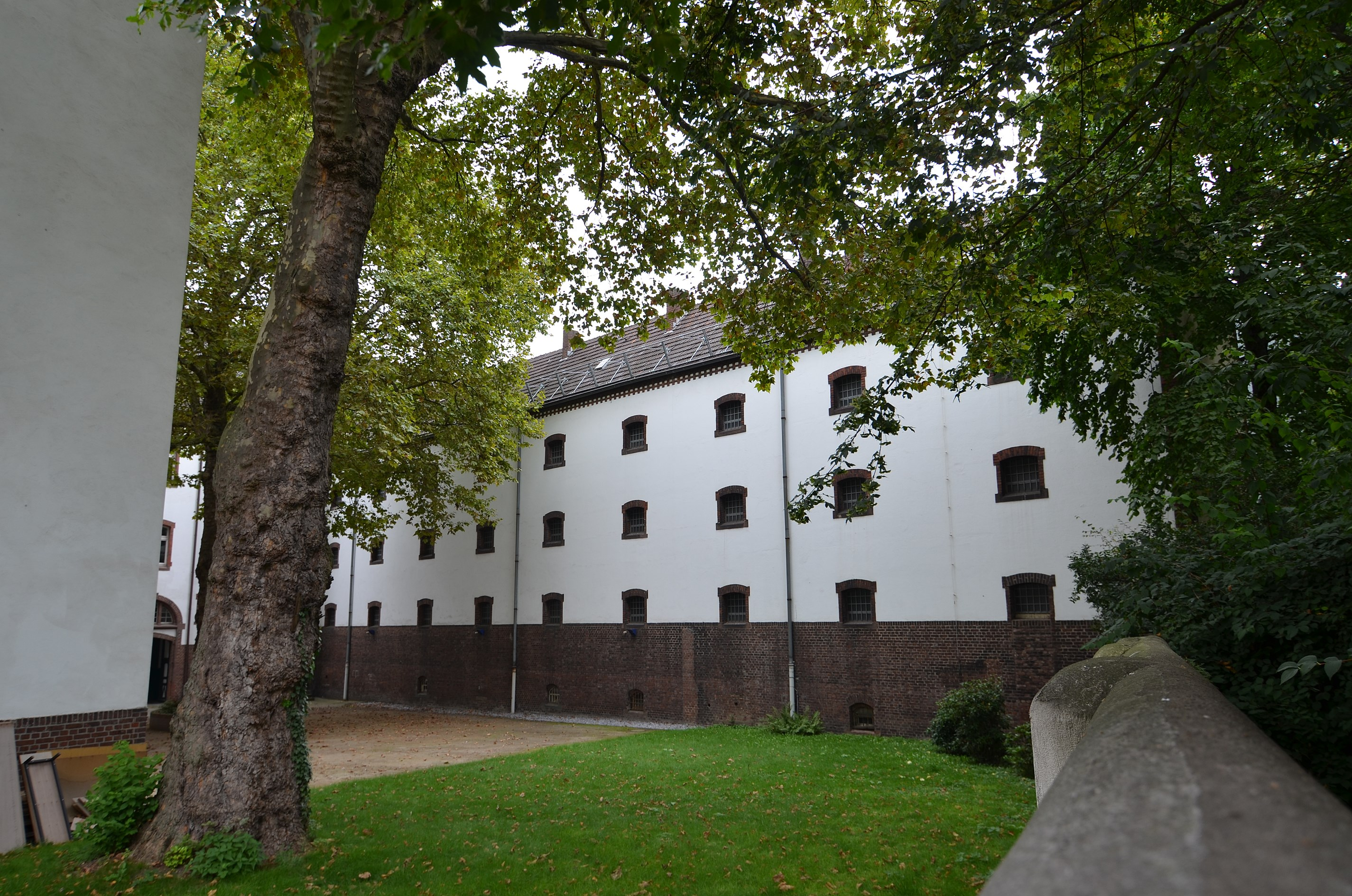 Duisburg (North Rhine-Westphalia, Germany) – borough Homberg/Ruhrort/Baerl, district Ruhrort – local courthouse – prison This image shows a heritage building in Germany, located in the North Rhine-Westphalian city Duisburg (no. 6). This photograph was taken with a Nikon D7000